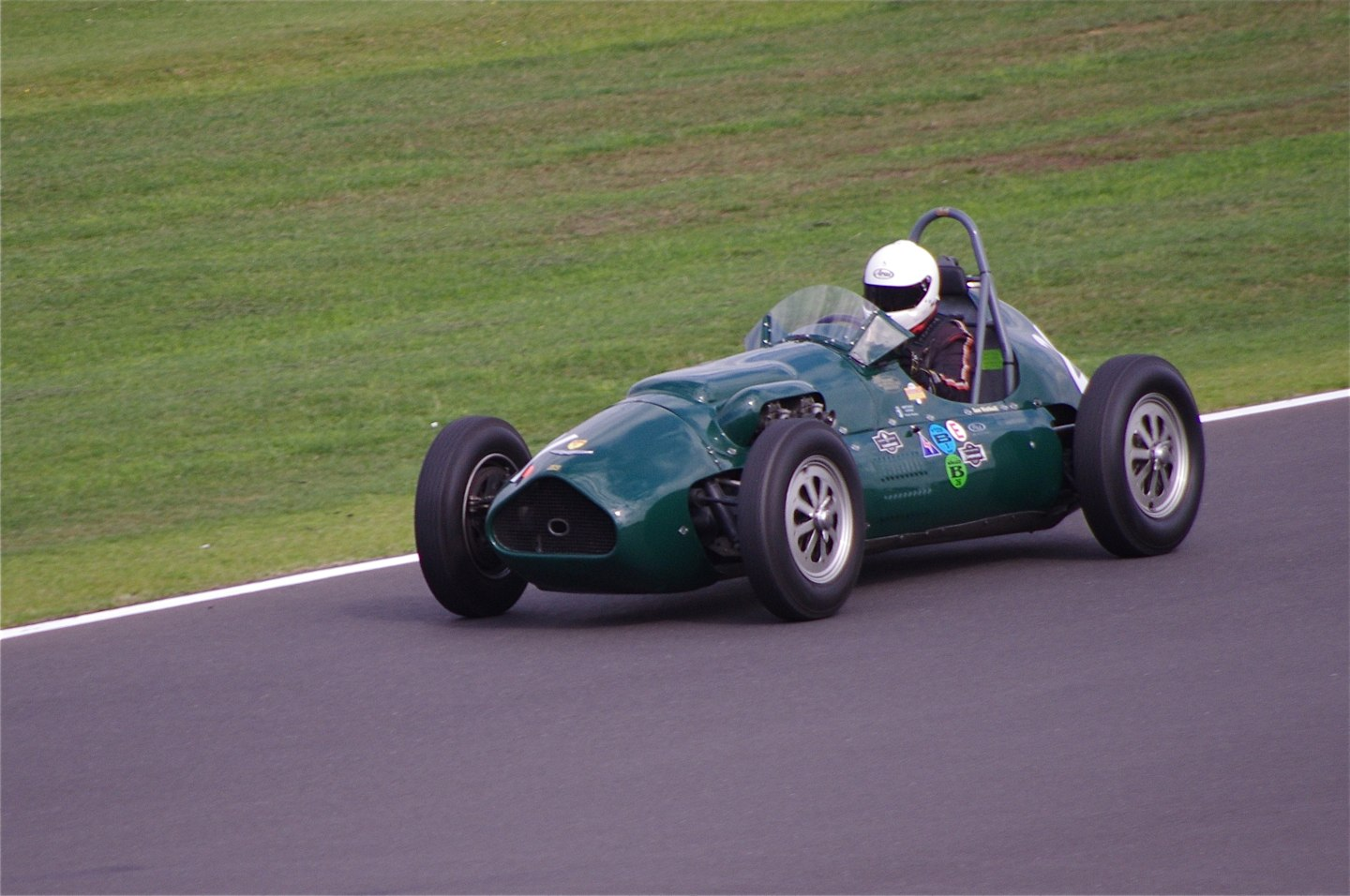 Silverstone Classic 2011